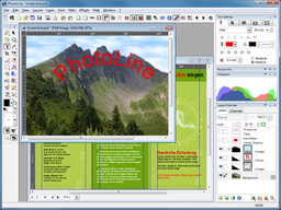 Screenshot of PhotoLine.